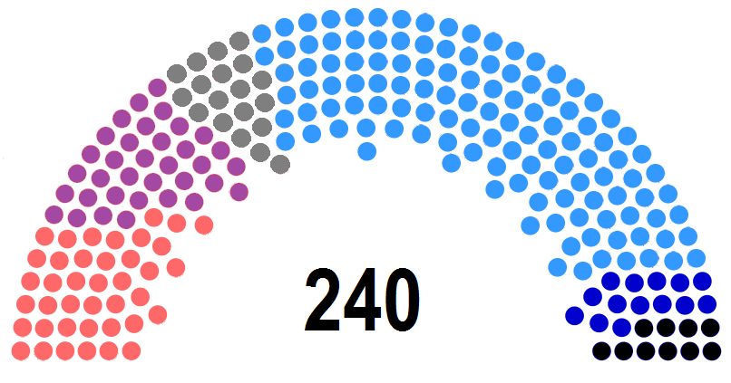 Composition of political groups in the Bulgarian Parliament, information from the official website of the National Assembly